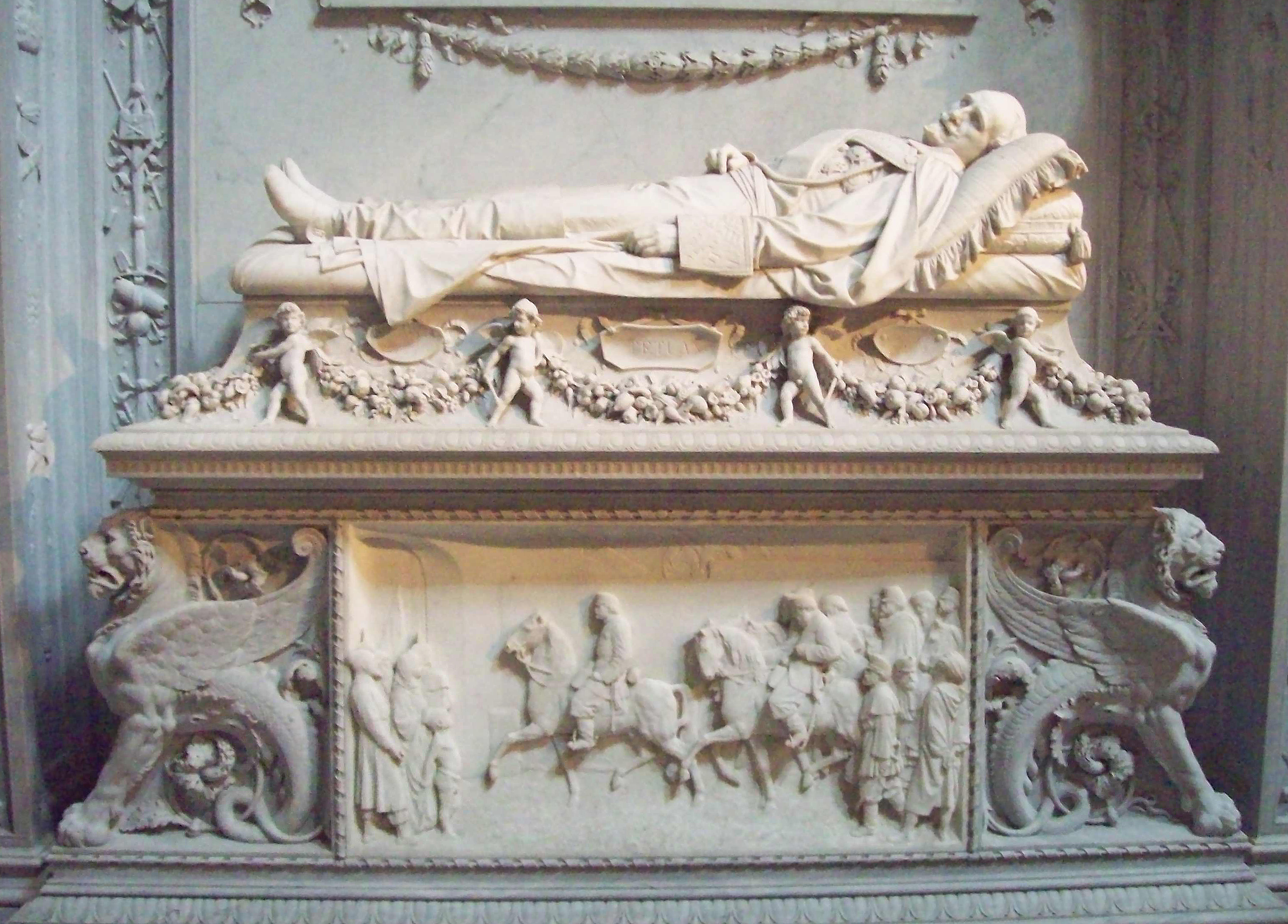 Partial view of the Mausoleum of Leopoldo O'Donnell (1809–1867), at St. Barbara's Church in Madrid (Spain). It was sculpted in Carrara marble by Jerónimo Suñol in 1870.